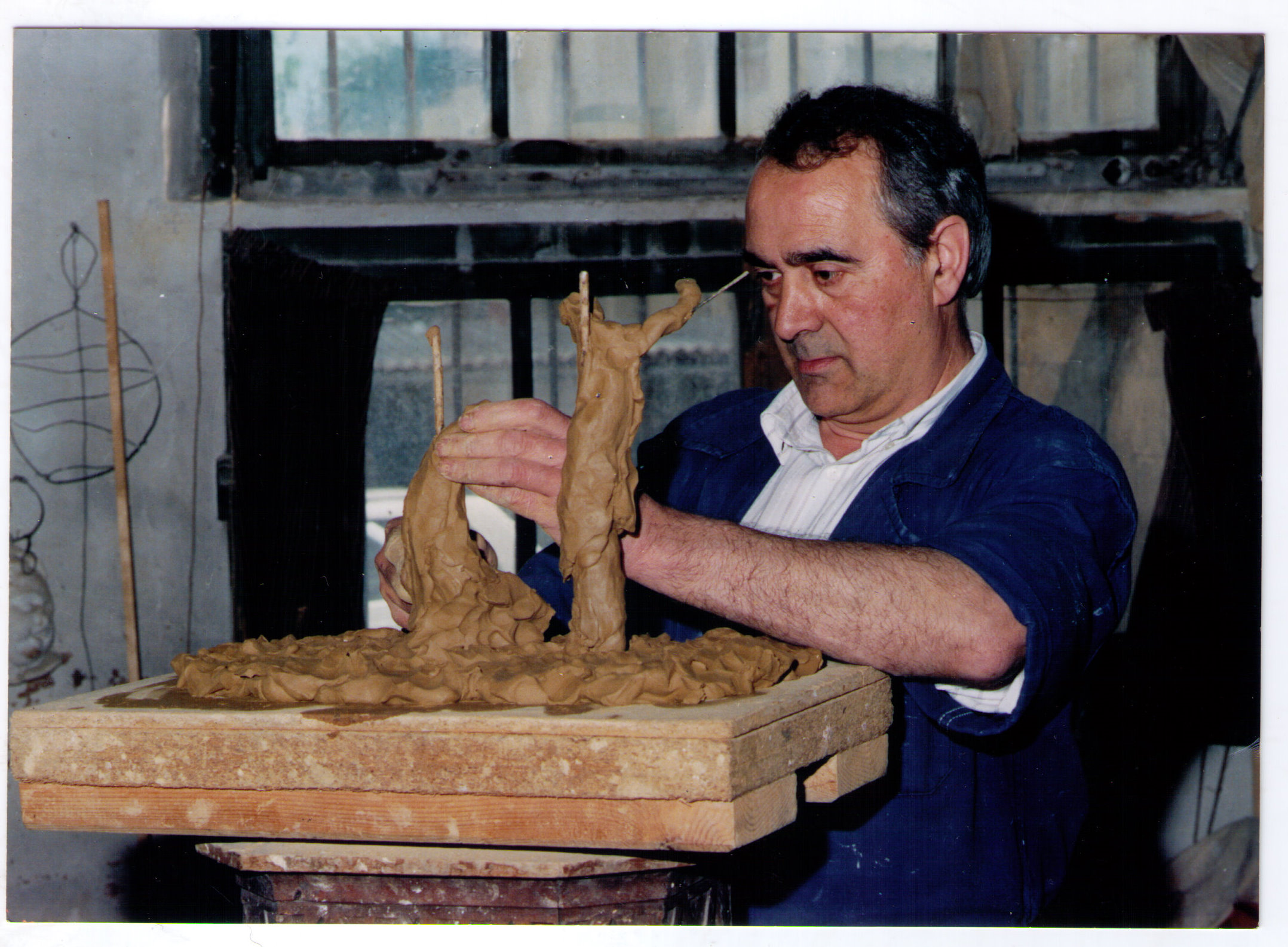 Sculptor catalan Josep Traite at Work